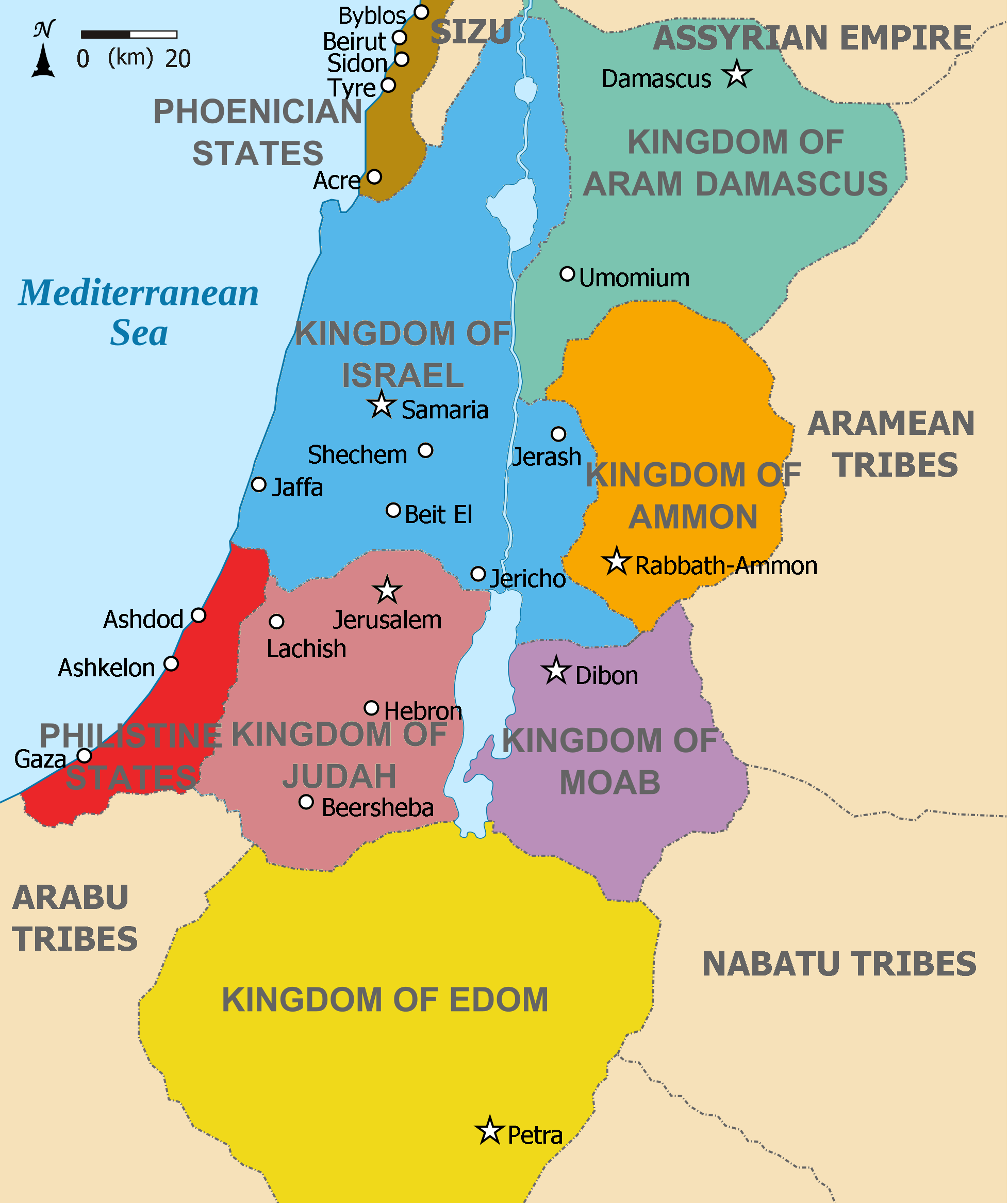 Map showing Kingdoms of the Levant c 830. The Kingdoms: Phoenicia -Brown Aram Damascus - Aquamarine Amon - Orange Moab - Purple Edom - Yellow Philistia - Red Israel - Blue) Judah - Maroon The map shows the region in the 9th century BCE.